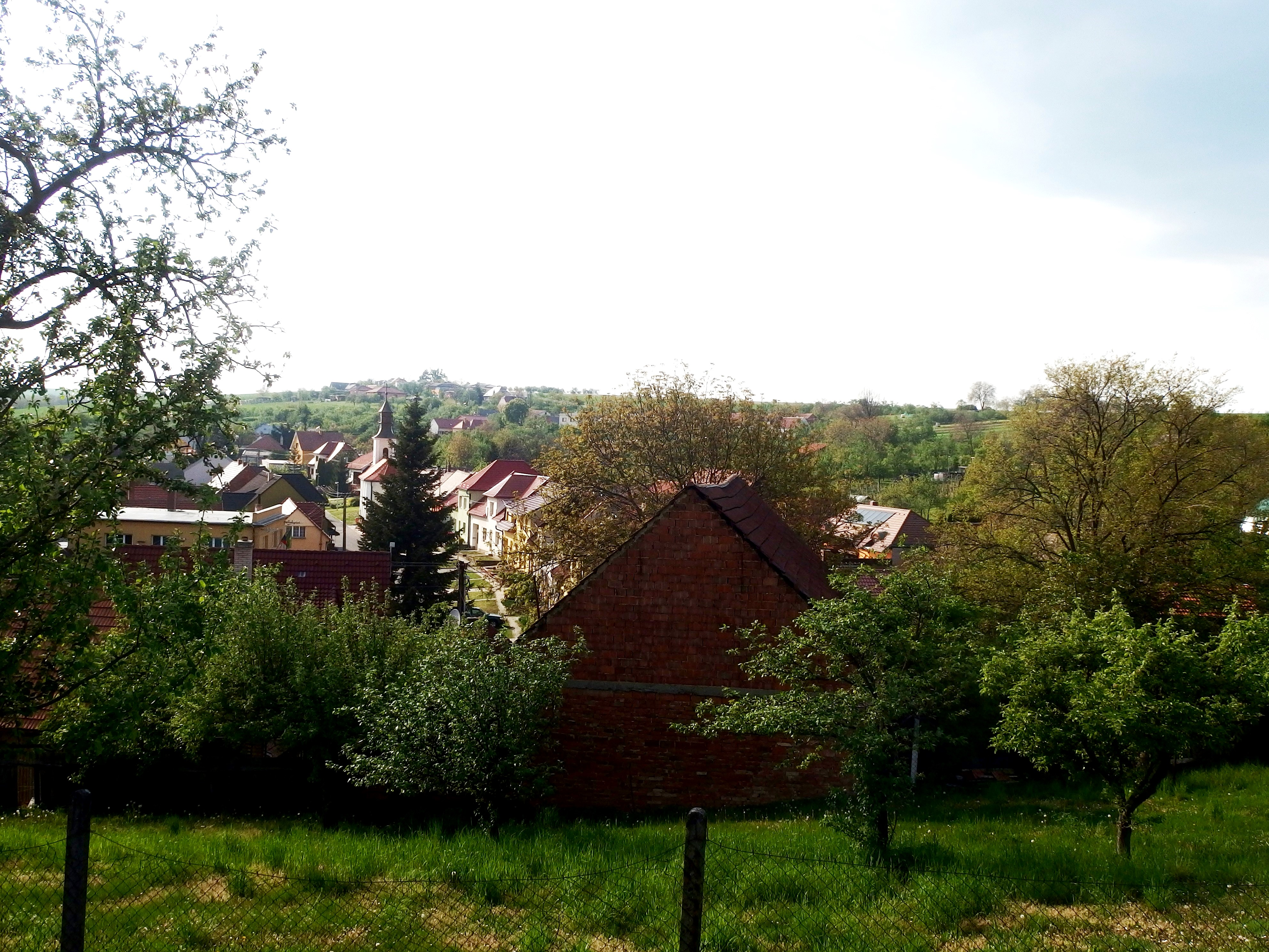 Vážany, Uherské Hradiště District, Czechia.